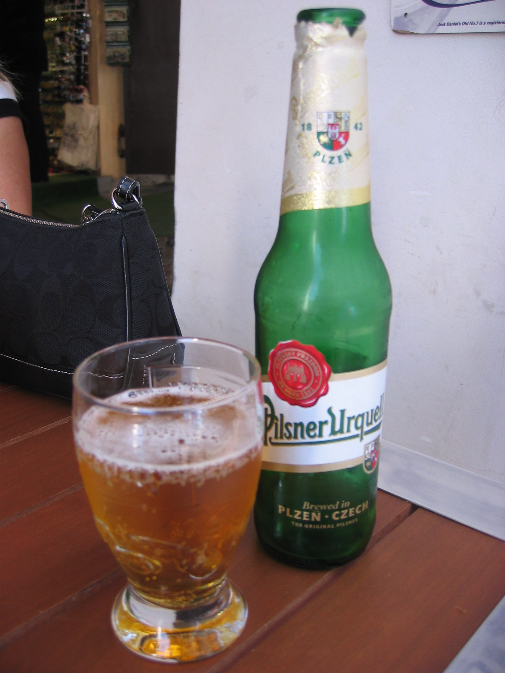 A bottle of Pilsner Urquell beside the glass of Pilsner Urquell beer, Prague, Czech Republic